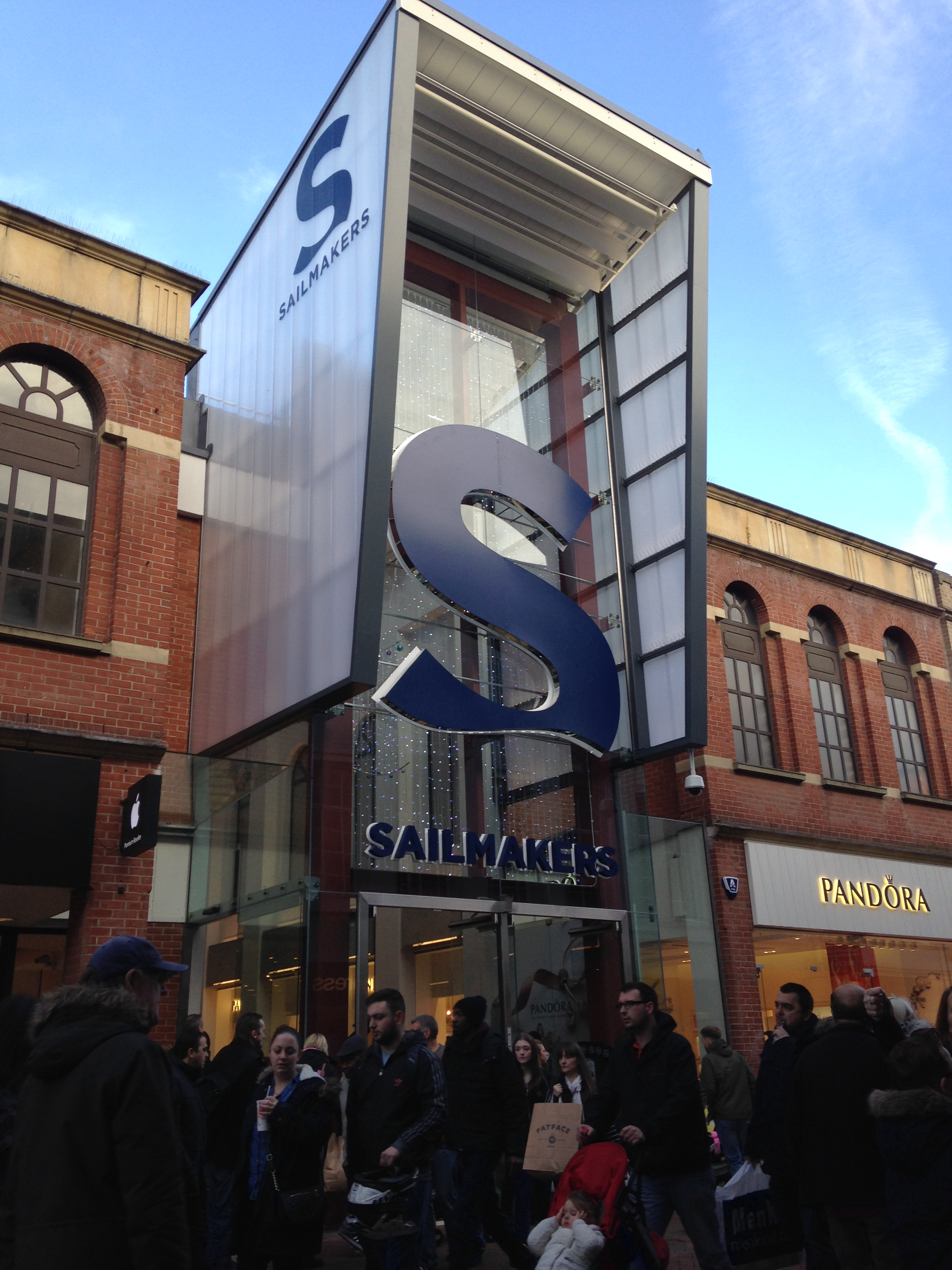 Sailmakers Shopping Centre (High Street Entrance) in Ipswich , Suffolk , United Kingdom.